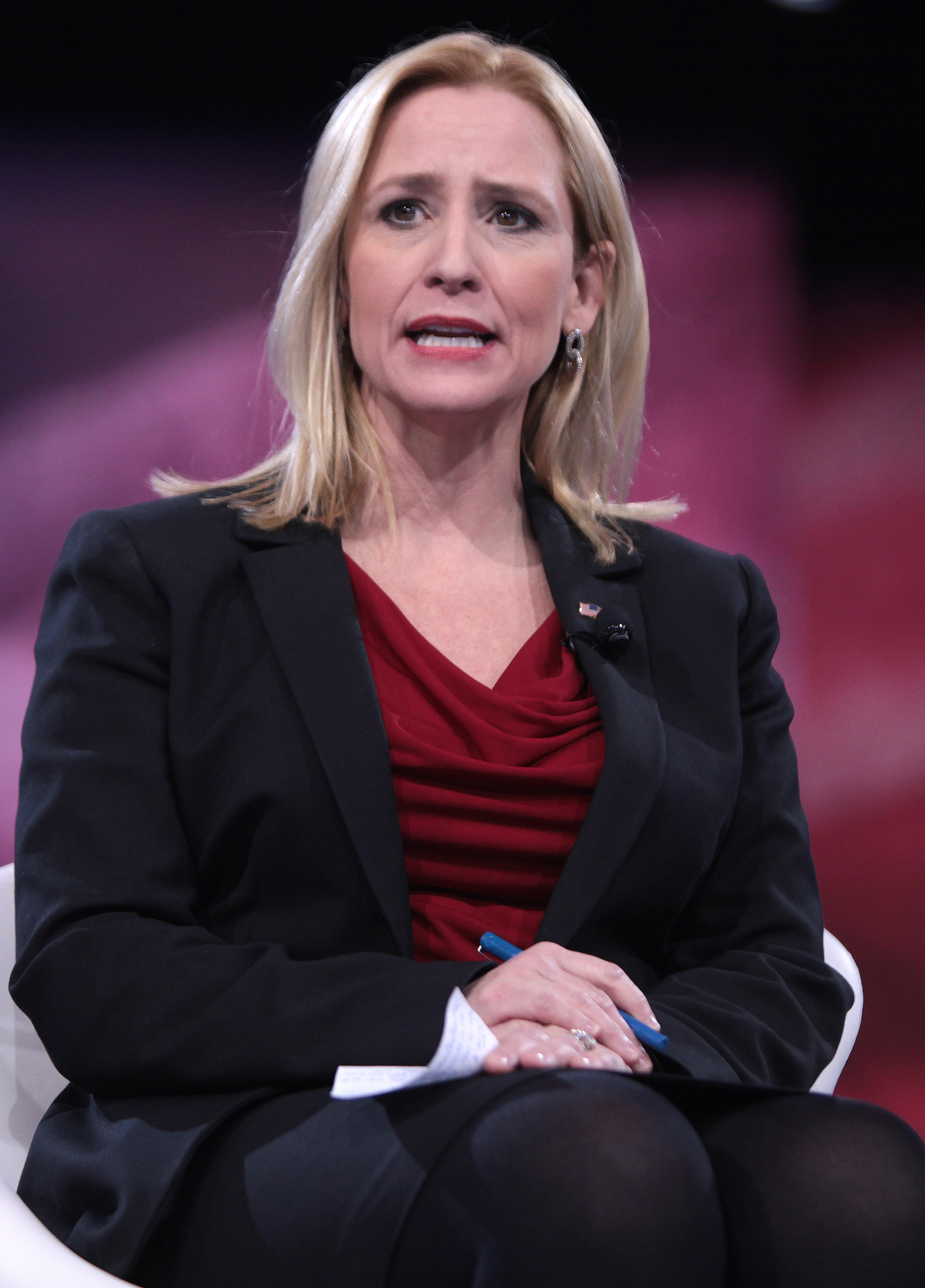 Leslie Rutledge speaking at CPAC 2016 in National Harbor, Maryland.